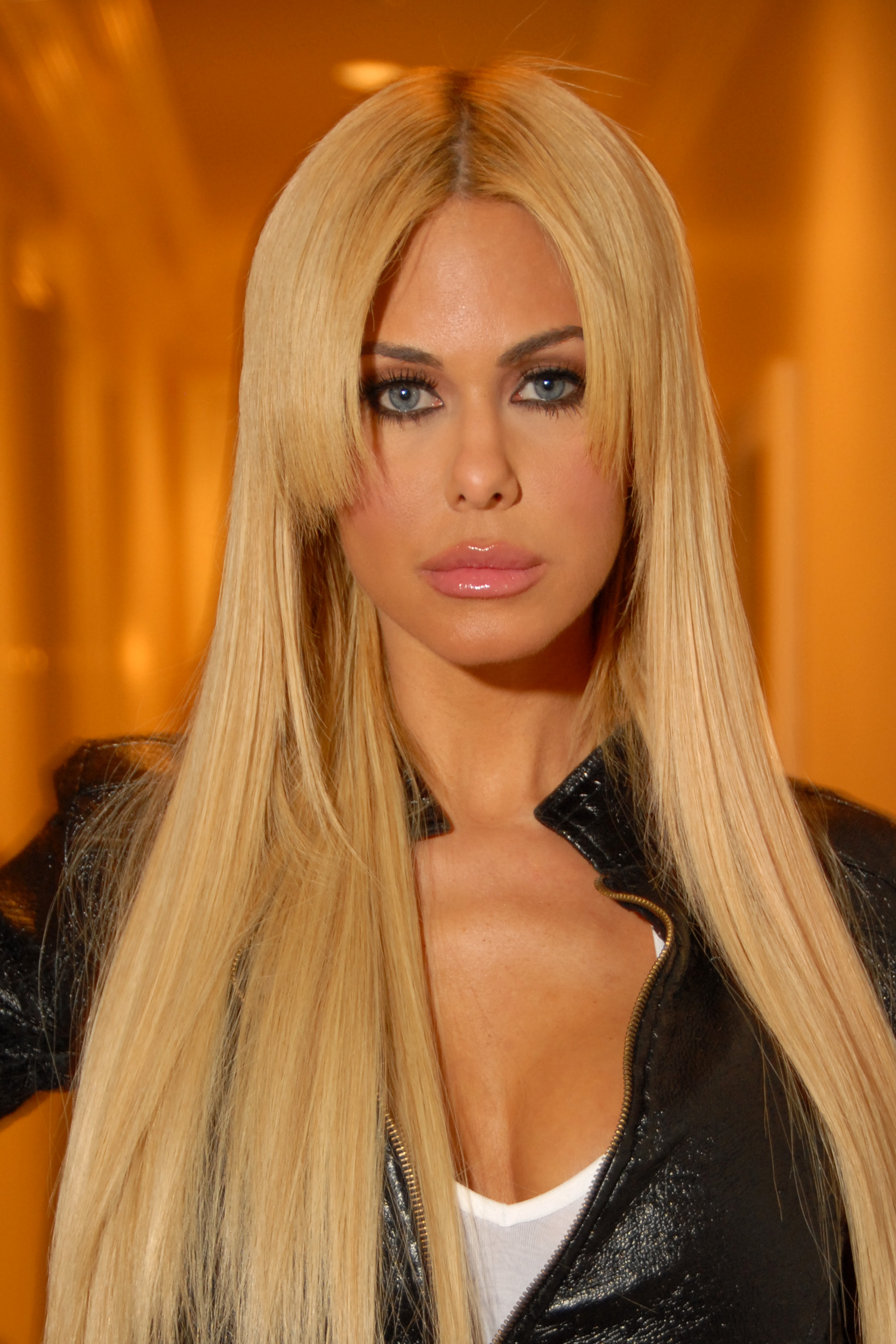 Shauna Sand April 25, 2009 - Photo by Glenn Francis of